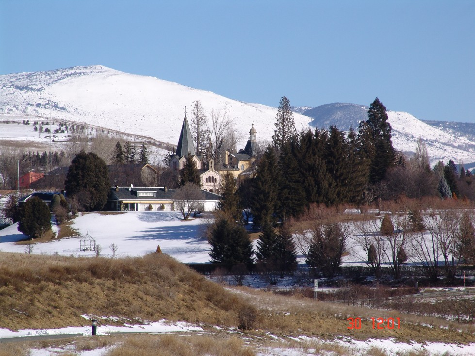 TORRE DEL REMEI